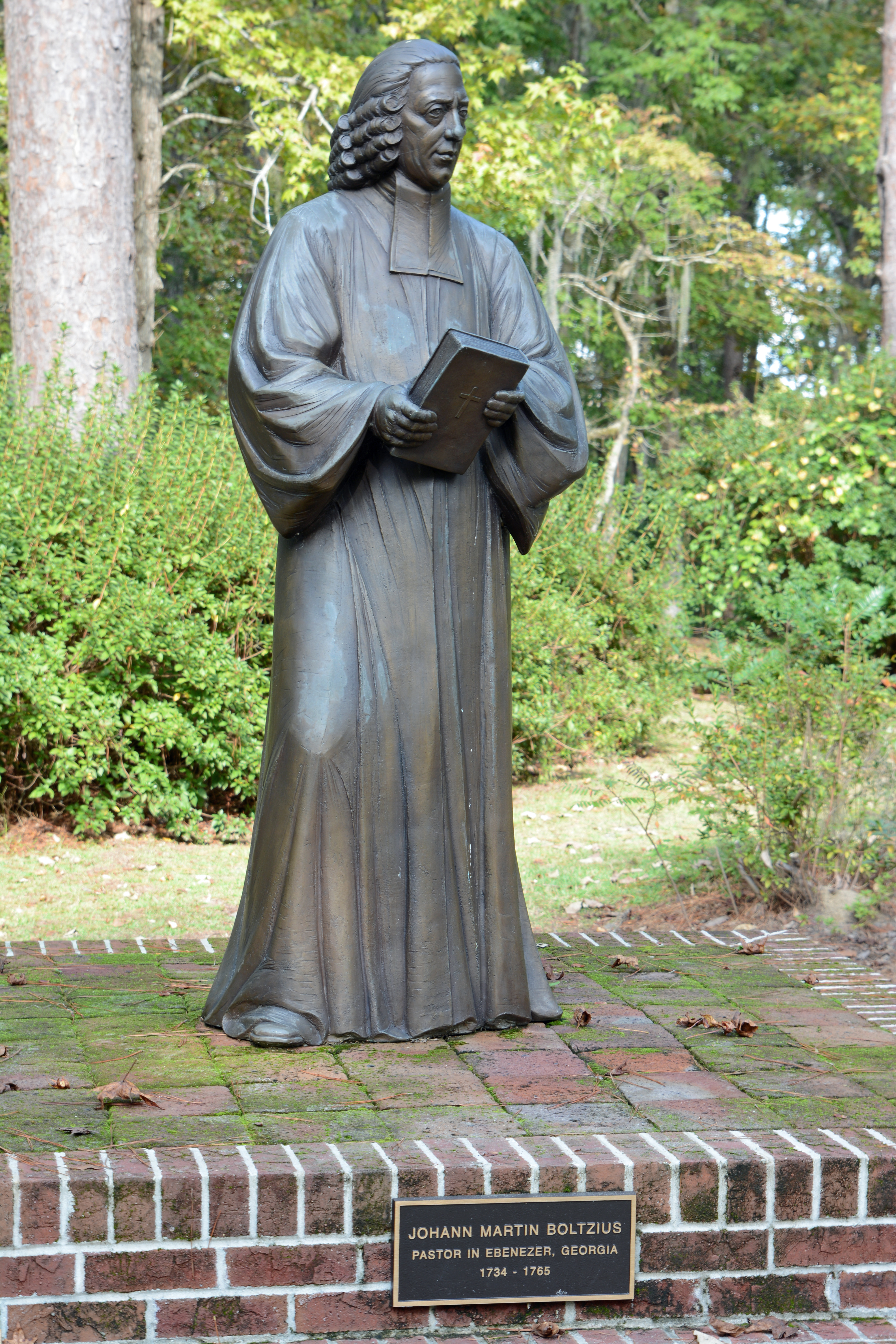 Statue of Johann Martin Boltzius in the old town site of Ebenezer, Georgia, US. The old town site and the church are on the National Register of Historic Sites